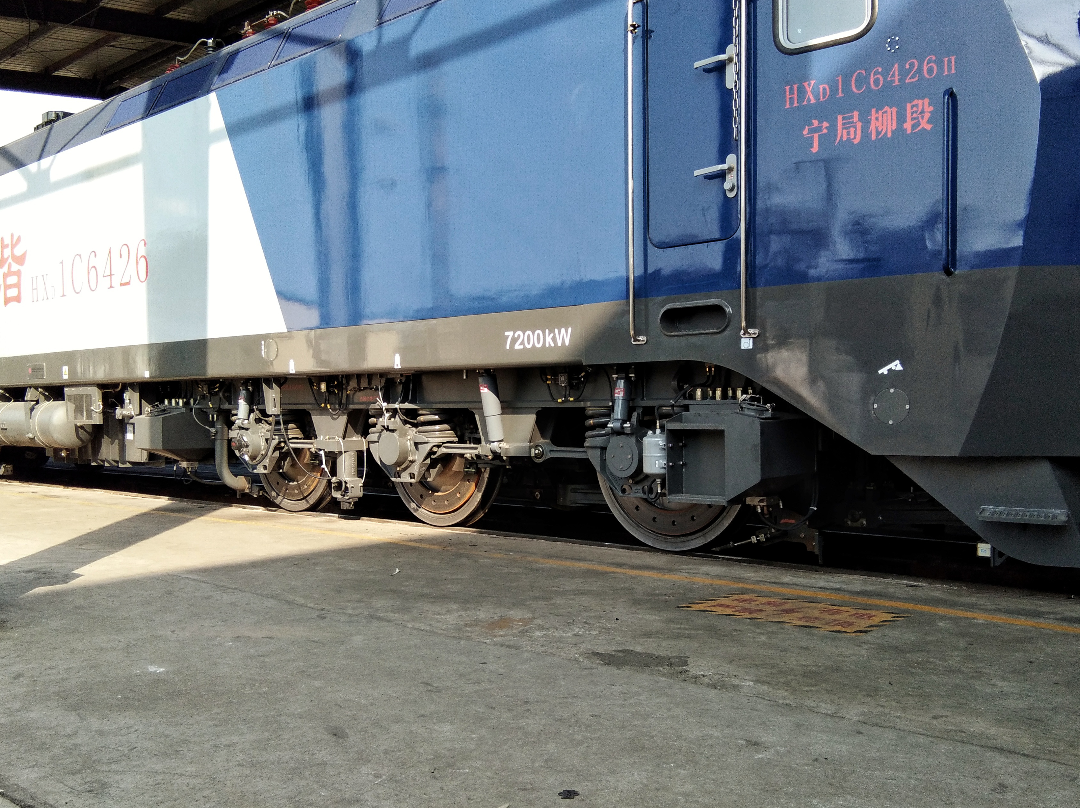 HXD1C-6426 in Liuzhou Locomotive Depot, Nanning Railway Bureau, 4th November, 2017.